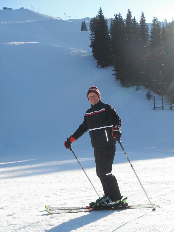 Dr Dragan Djokanovic, skiing on Jahorina mountain.